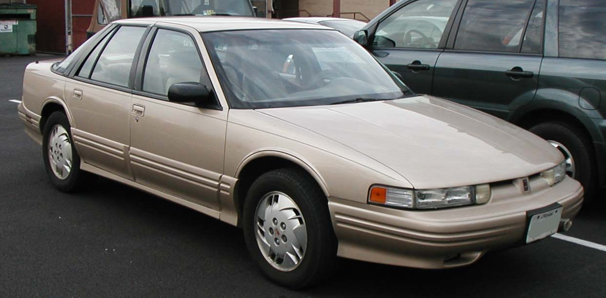 1988-1997 Oldsmobile Cutlass Supreme photographed in USA.